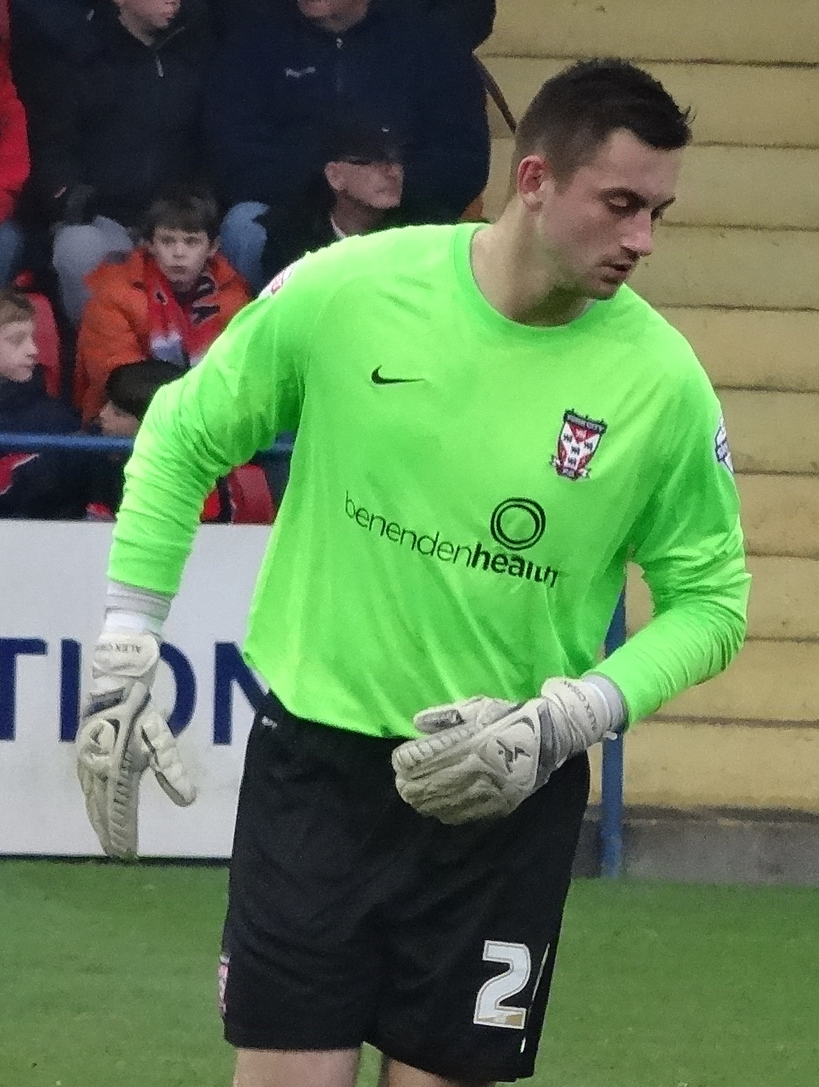 Alex Cisak playing for York City against Oxford United at Bootham Crescent, York on 15 November 2014